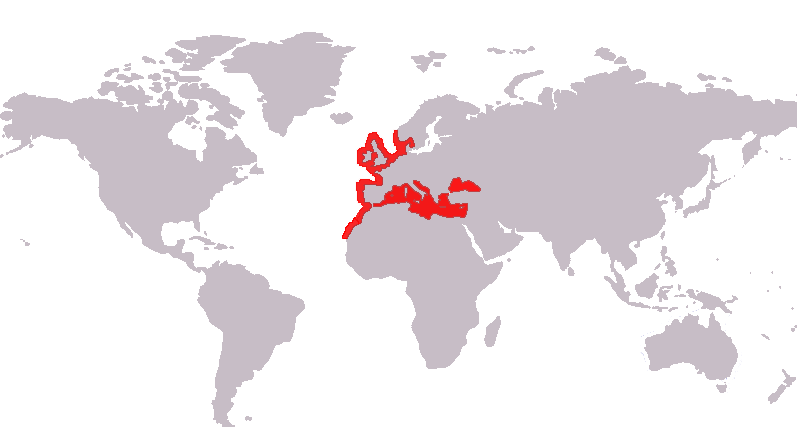 Dicentrarchus labrax distribution map